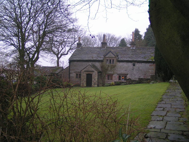 Cottage, Fairfield.